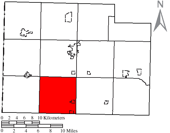 Made by the US Census and modified by myself